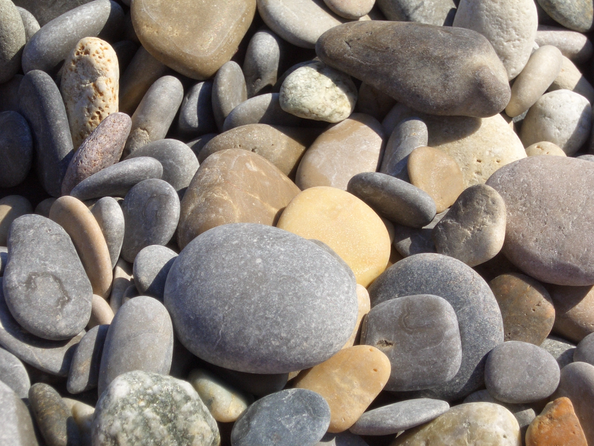 Pebbles at a beach near Nice.